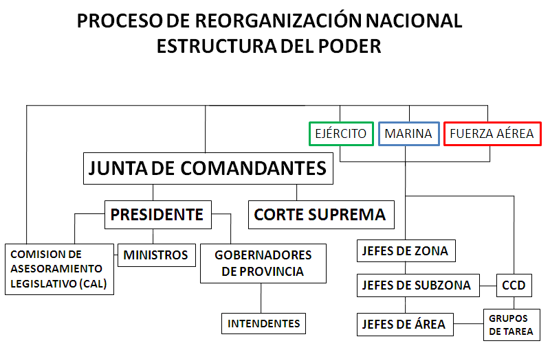 Argentina. Structure of power during the Proceso de Reorganización Nacional (dictatorship 1976-1983). Note: CCD means "centro clandestino de detención" (clandestine detention center)